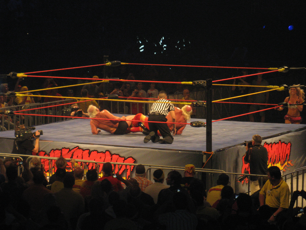 Hulkamania Tour @ Rod Laver Arena. Melbounre, AUS.